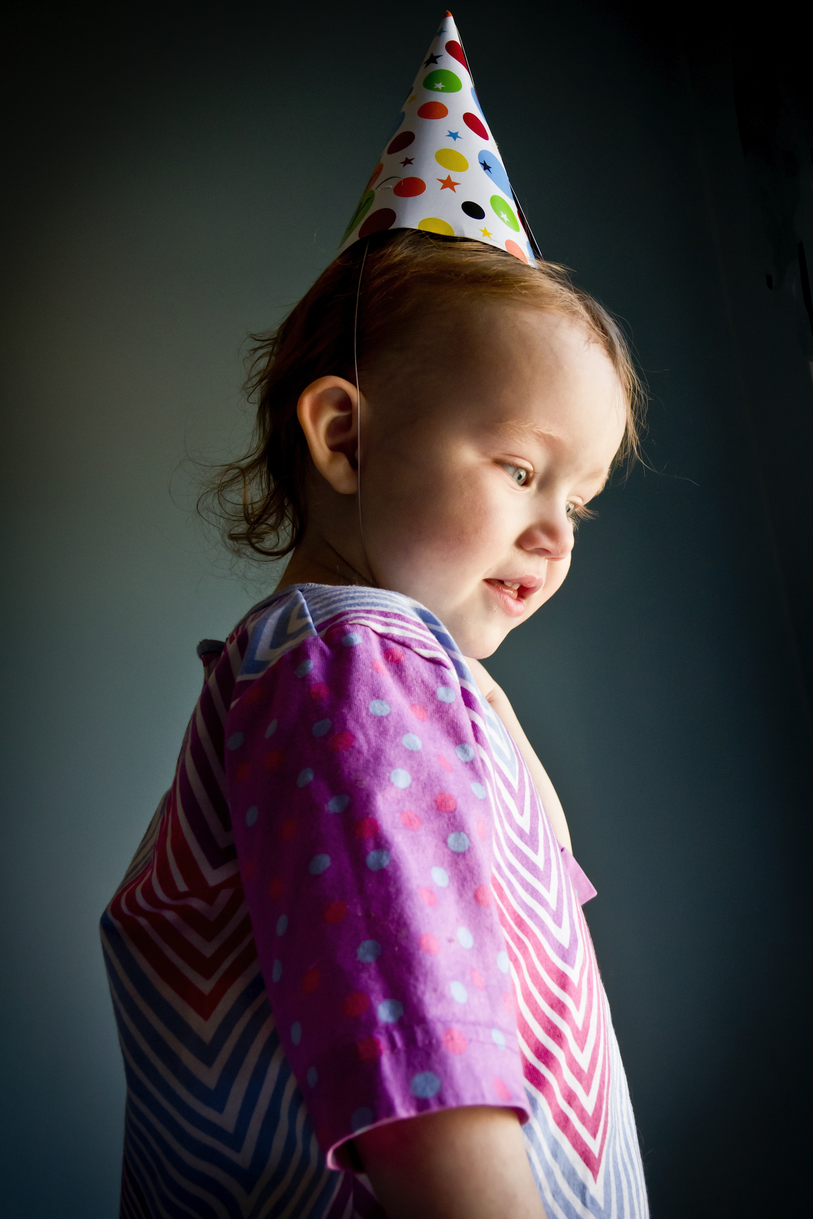 Two-year-old girl in traditional American birthday hat.